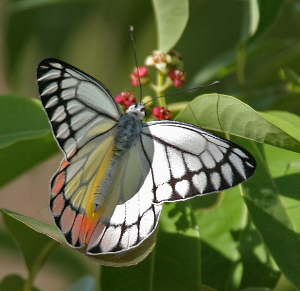 Common Jezebel Delias eucharis in Hyderabad , India.